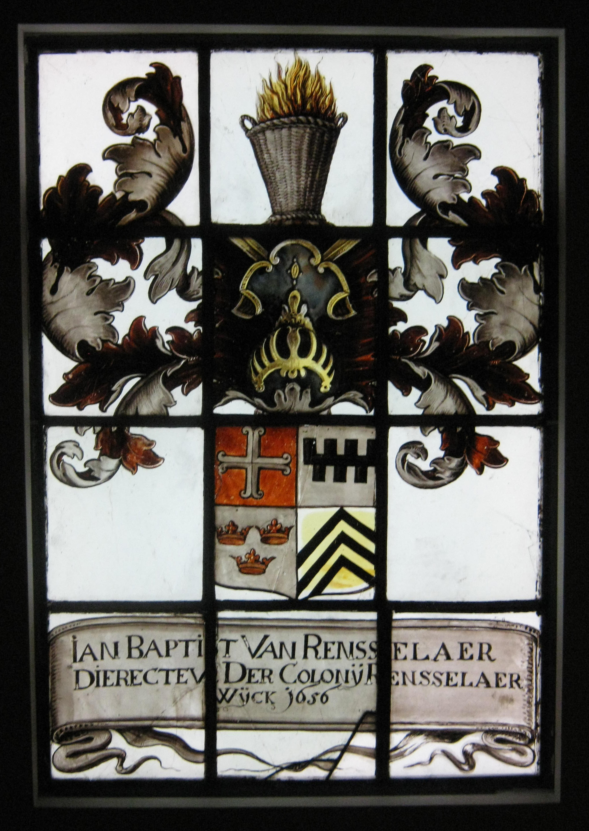 From the Metropolital Museum of Art's website: "This window decorated with the van Rensselaer family coat of arms is one of the earliest and most precious pieces of American stained glass. It was given to the Old Dutch Church in Beverwyck, New York, by Jan Baptist van Rensselaer in 1656. At that time, Jan Baptist was the patroon of Rensselaerwyck. After the church was demolished in 1805, the window was installed at the head of the staircase in the Van Rensselaer Manor House, which itself was demolished in 1893."